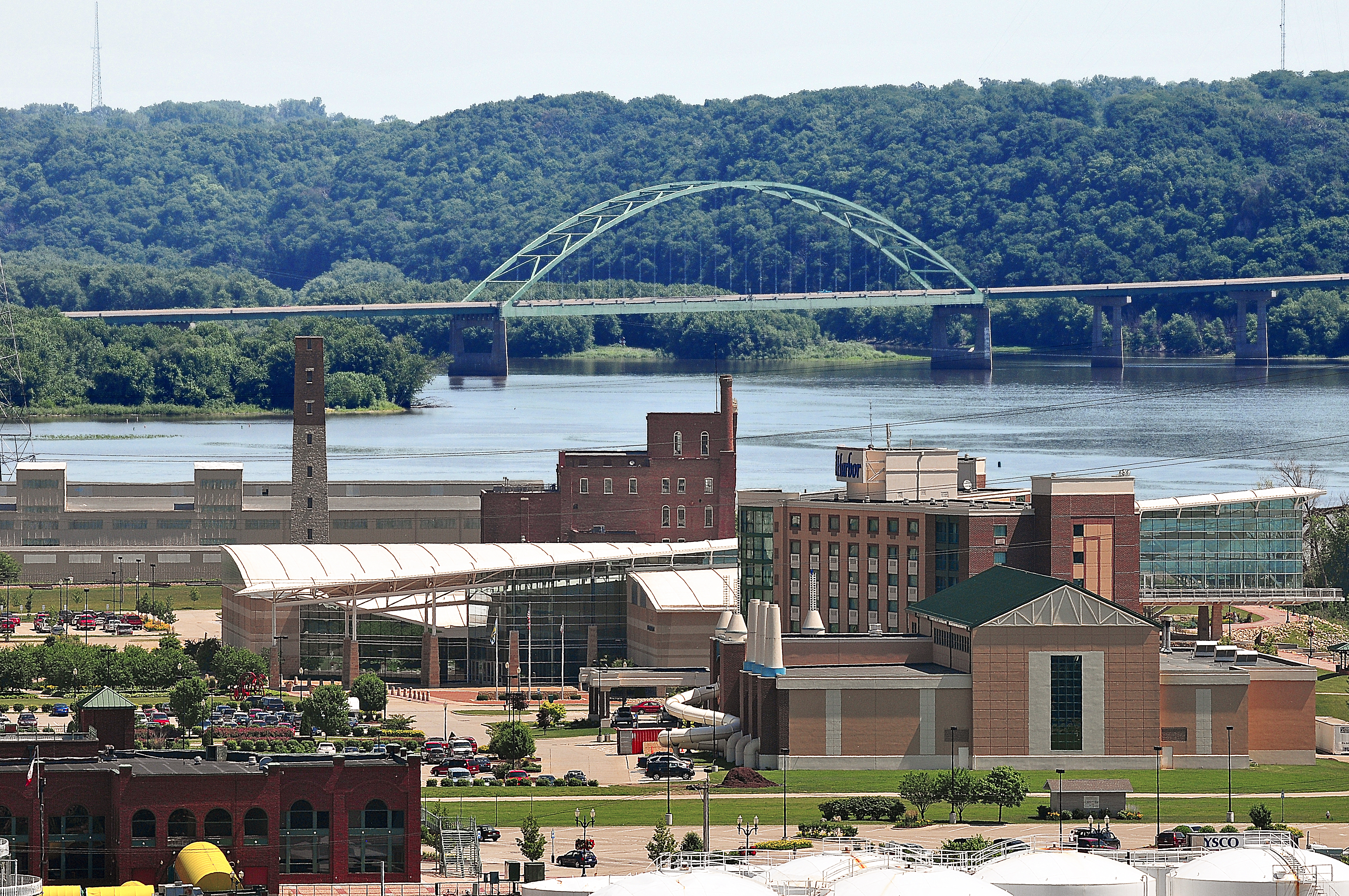 Dubuque Iowa and Wisconsin Bridge